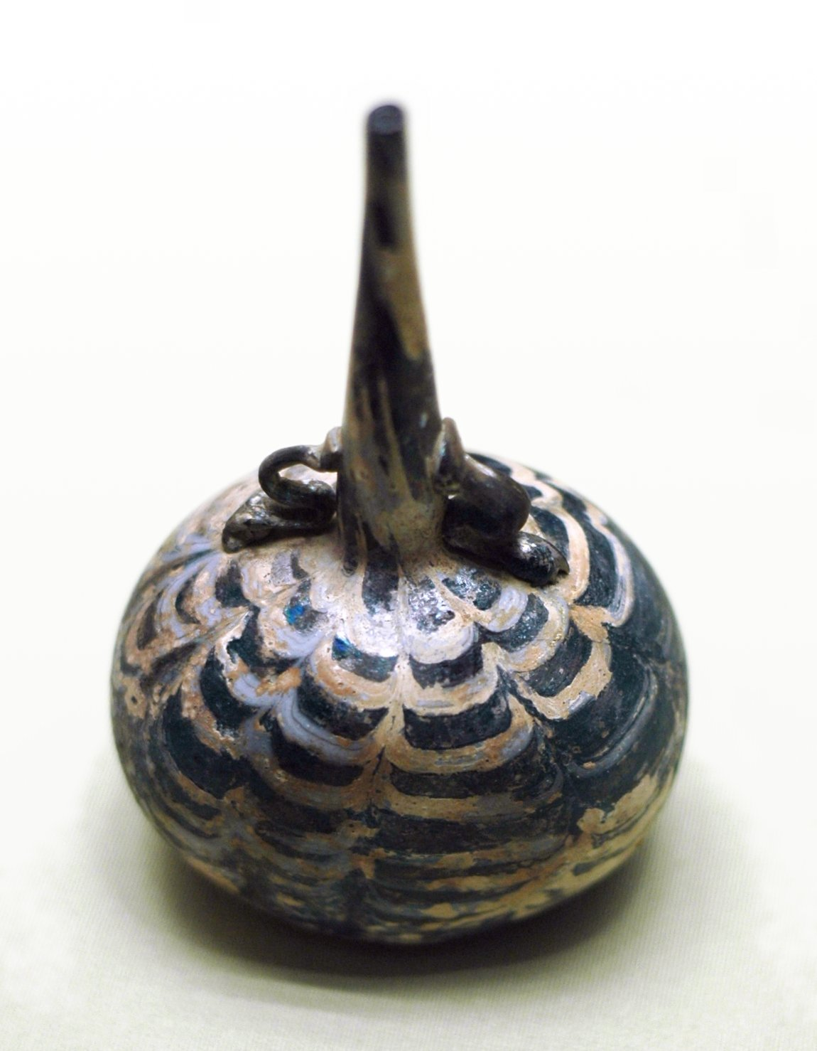 Sprinkler flask